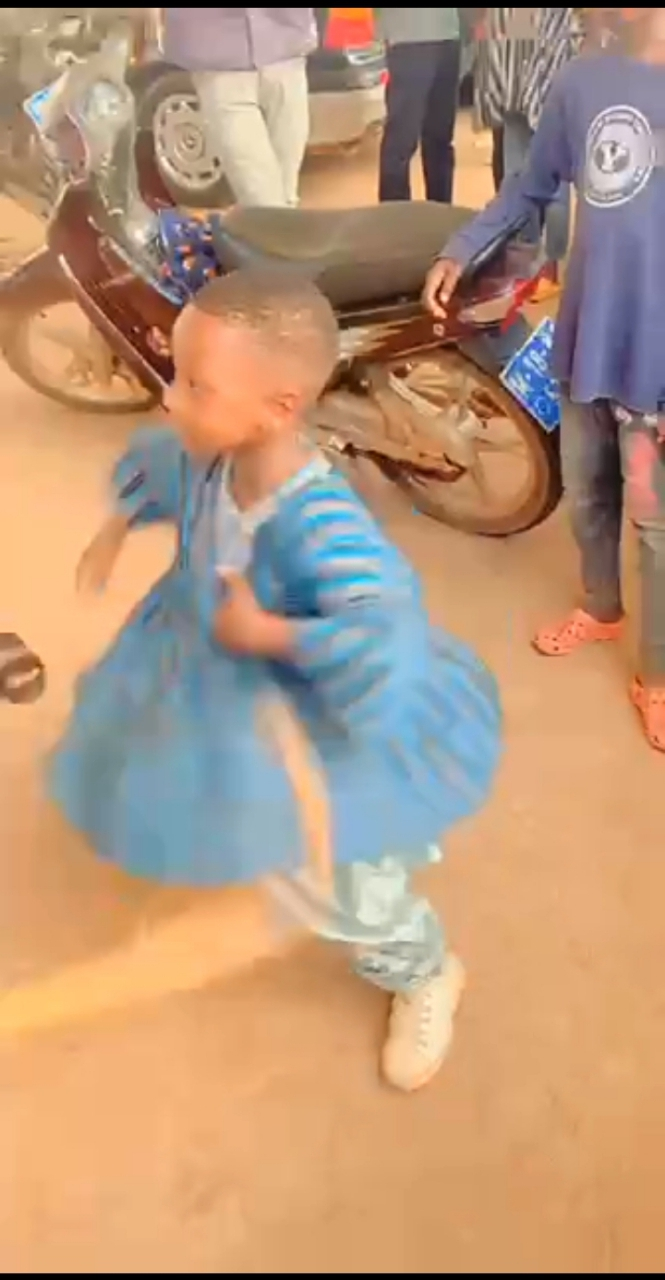 cultural dance near to the city